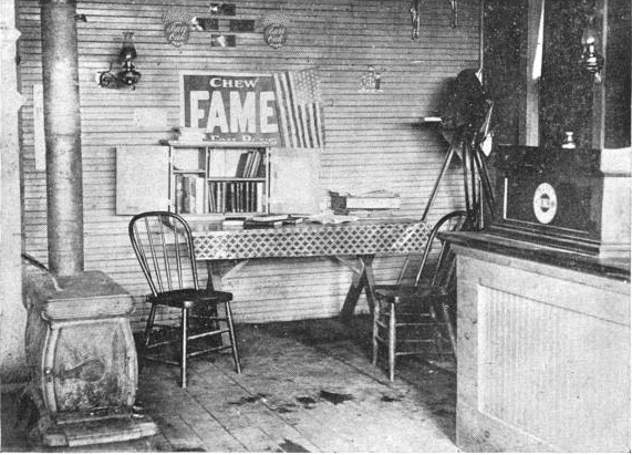 Traveling library venue, Wisconsin, USA